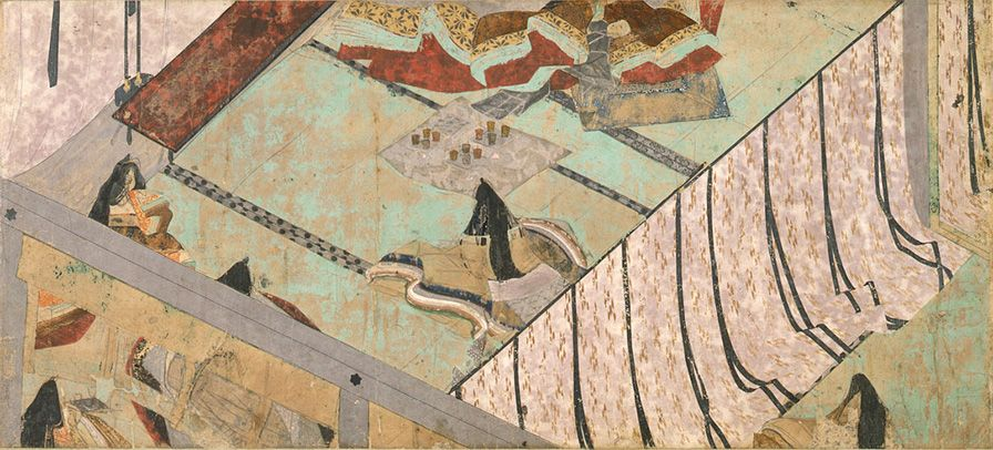 The Murasaki Shikibu Diary Emaki (紙本著色紫式部日記絵巻, shihonchoshoku Murasaki Shikibu nikki emaki). This is part of the handscroll located at the Gotoh Museum in Tokyo which consists of three illustrations and three pages of text. Color on paper. The scroll has been designated as National Treasure of Japan in the category paintings. 21.0cm x 46.4cm. The scene shown is: "Evening of Kankō 5, 11th month, 1st day (December 1, 1008). Ika-no-iwai (celebration 50 days after birth in which father or maternal grandfather make the baby eat mochi) of the Imperial Prince. Painting of Empress Shōshi holding the young imperial prince (Atsuhira-shinnō, the later Emperor Go-Ichijō) in her arms and court ladies inside a shinden partitioned off by kichō with design of decaying trees.